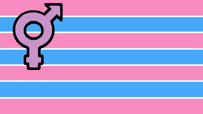 The Transgender Pride Flag designed in 1999 by Johnathan Andrew ("Captain John") of the transmale website "Adventures in Boyland" (1999-2004).